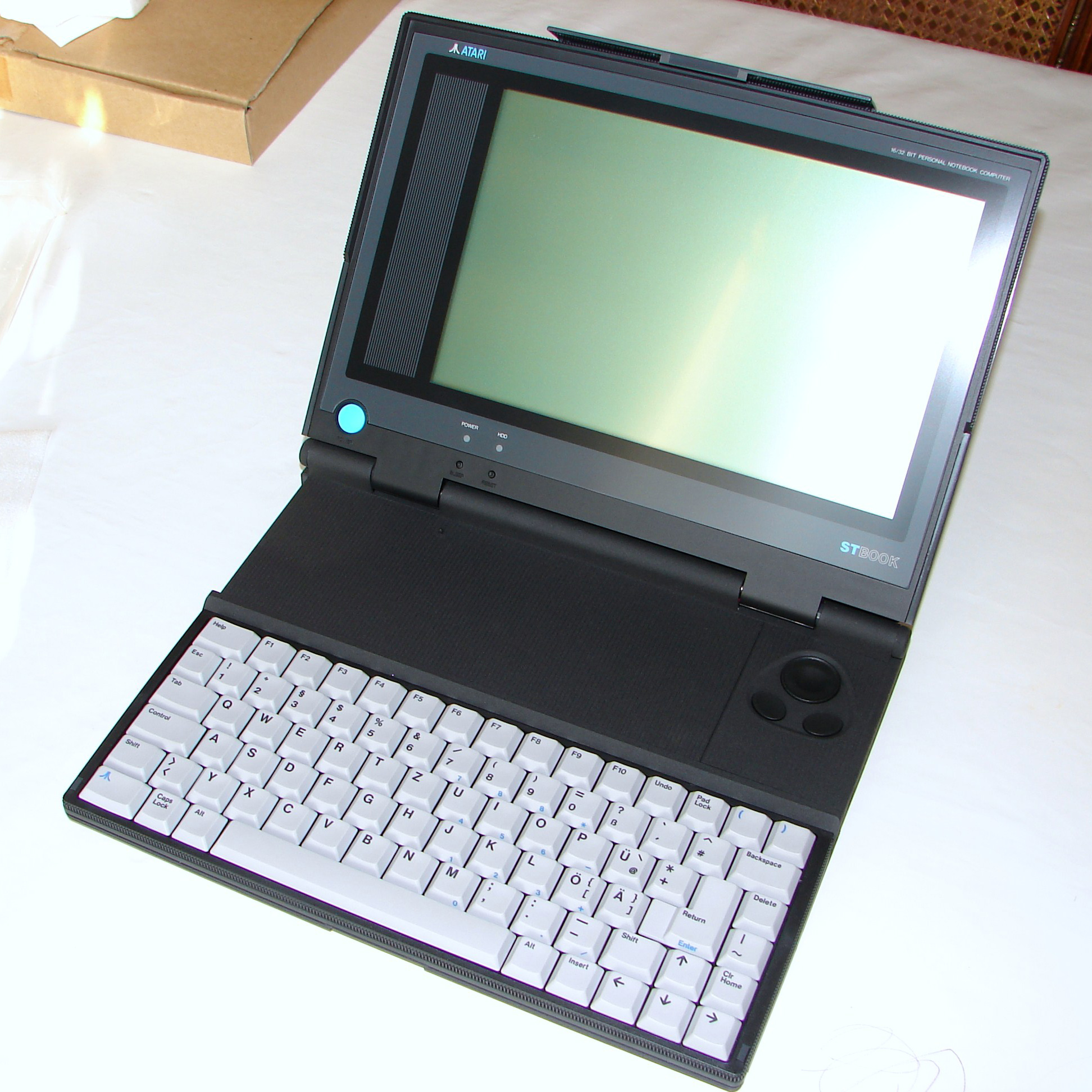 Atari ST BOOK (overhead from right)